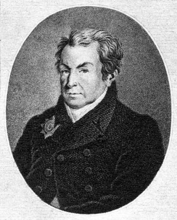 Russian Poet Dmitry Khvostov.